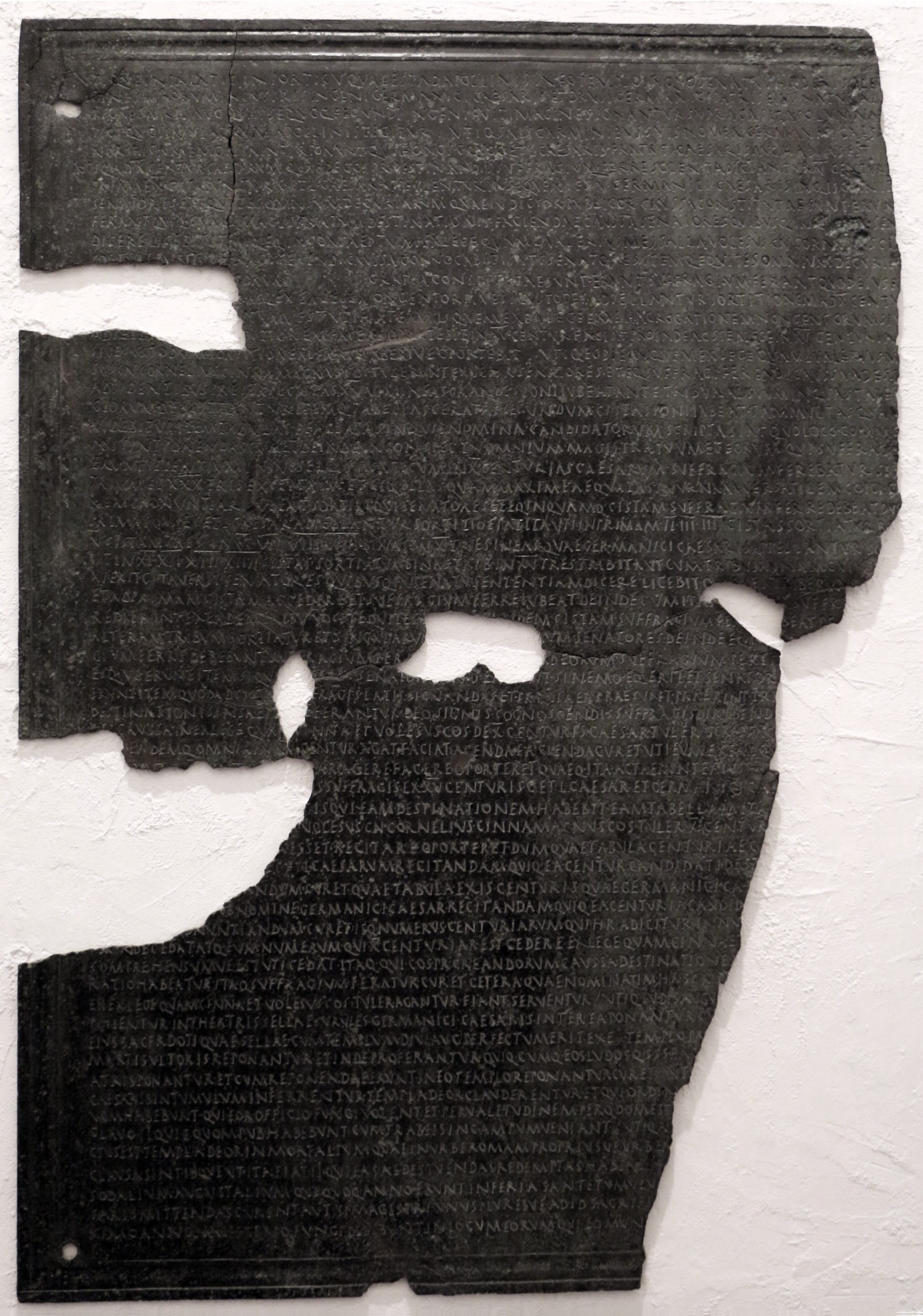 Tabula Heban, bronze as Roman antiquity in the Museo archeologico e d'arte della Maremma, Grosseto, Italy